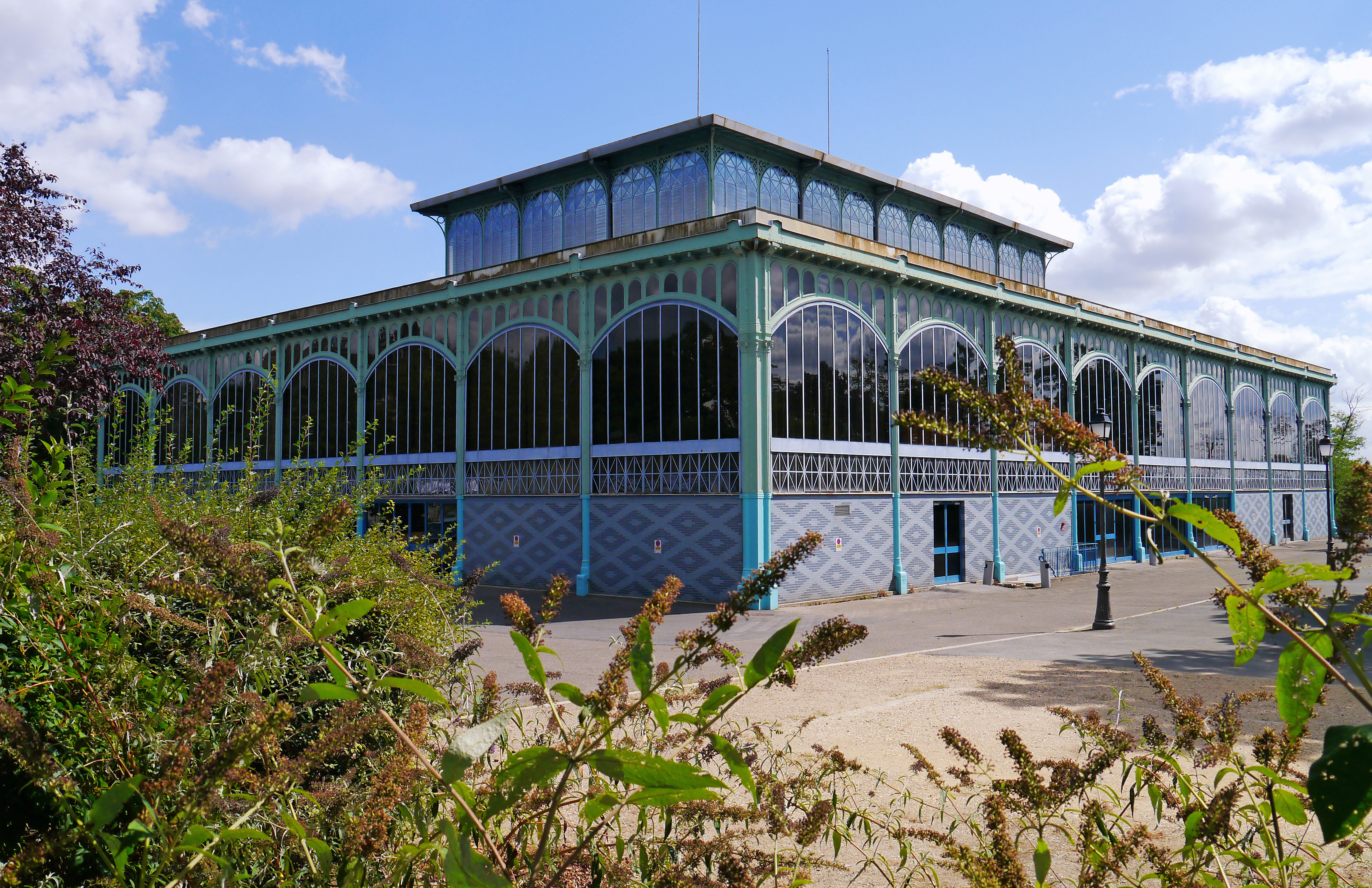 Nogent-sur-Marne, Val-de-Marne, France. Pavillon Baltard.